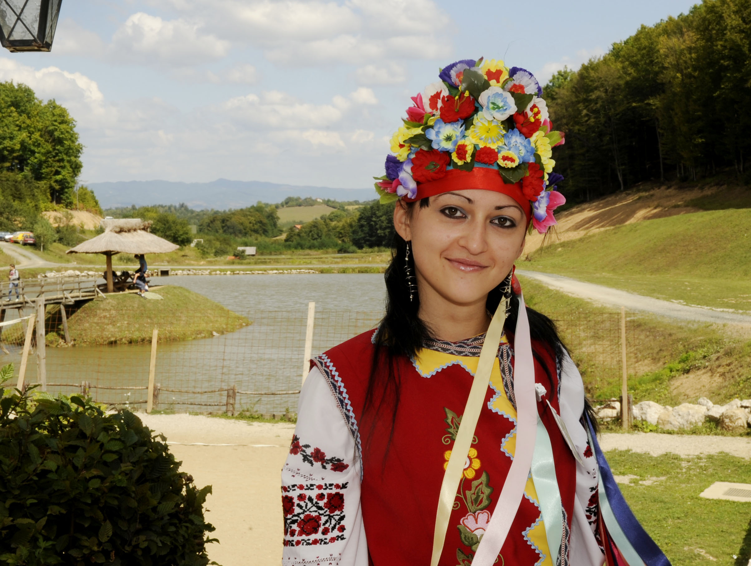 A Bosnian woman is dressed in the traditional Bosnian clothing at the Ljekarice Eco-Center, a resort park in Loncari-Prijedor, Bosnia-Herzegovina, Sept. 7, 2009.